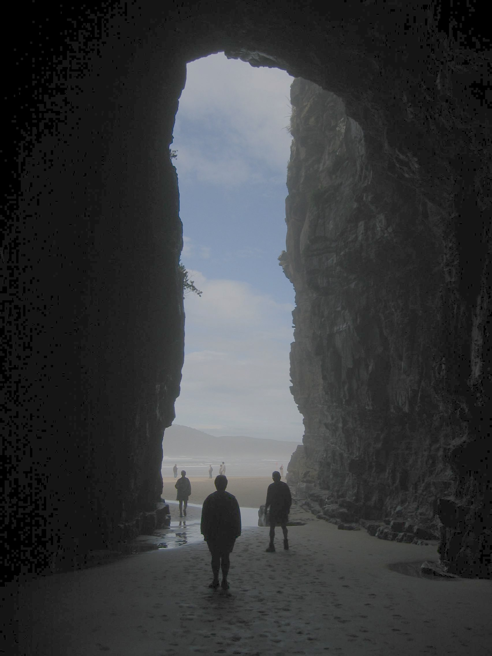 Looking out of one of the Cathedral Caves, in the Catlins, New Zealand. Edited version of In_Cathedral_Caves.jpg with reduced contrast.